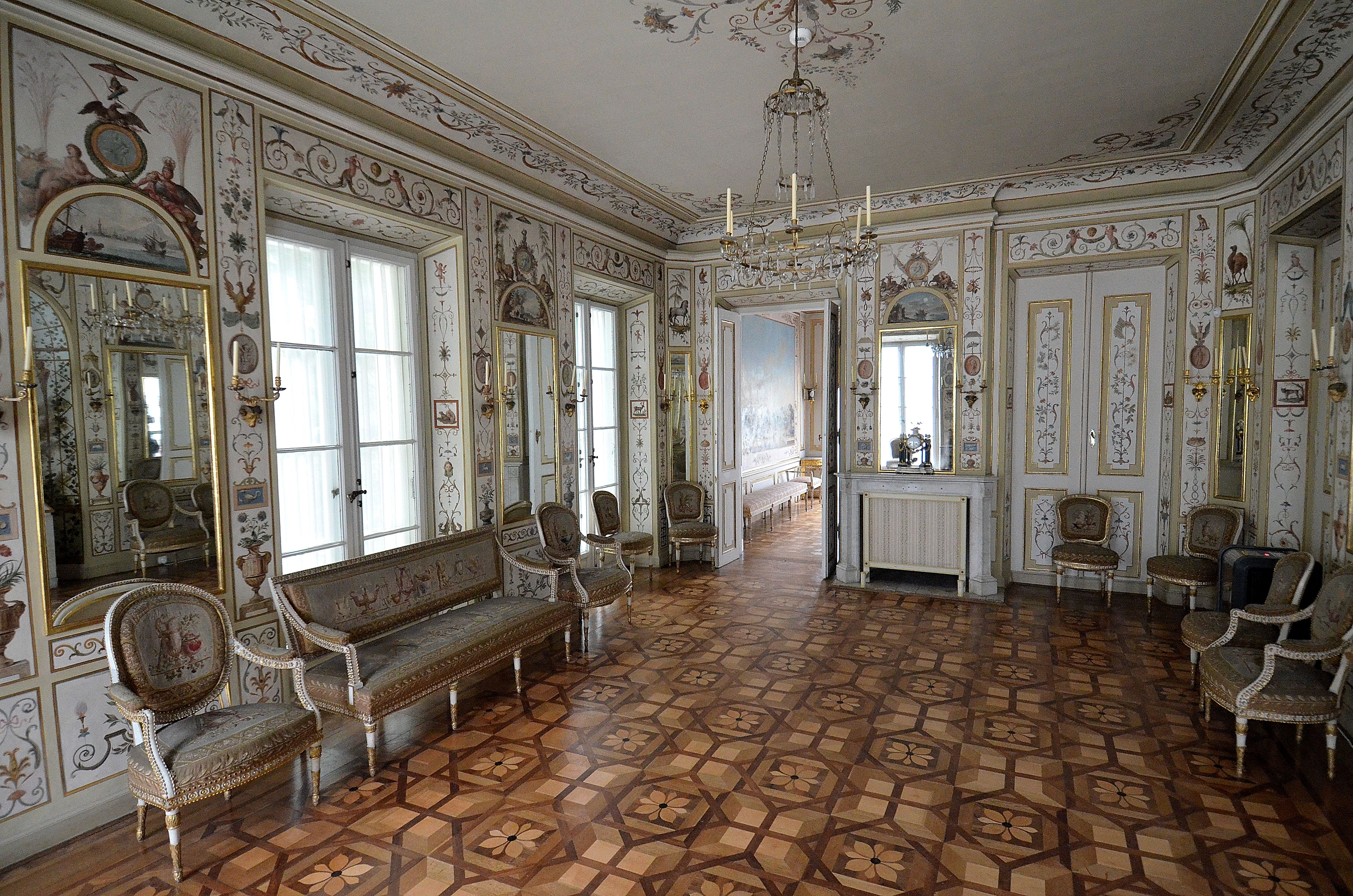 The dining room in the White Pavilion, Łazienki Park in Warsaw (listed in the Register of Historic Monuments on 1.07.1965, reference no. 2/3)